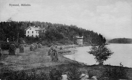 Old postcard of Nysund, Vårdinge socken, Mölnbo, Sweden.